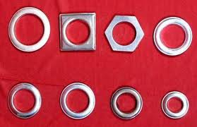 This Eyelets Used In Curtain